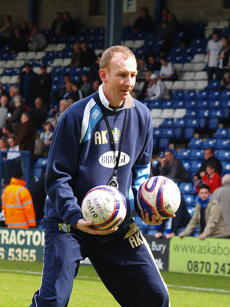 Bury F.C. manager Alan Knill